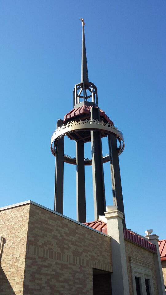 Spire of the Cathedral